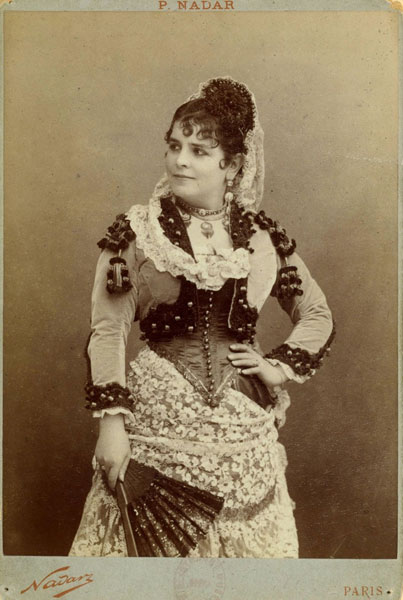 French opera singer Célestine Galli-Marié (1840-1905) in Georges Bizet's 1875 opera Carmen